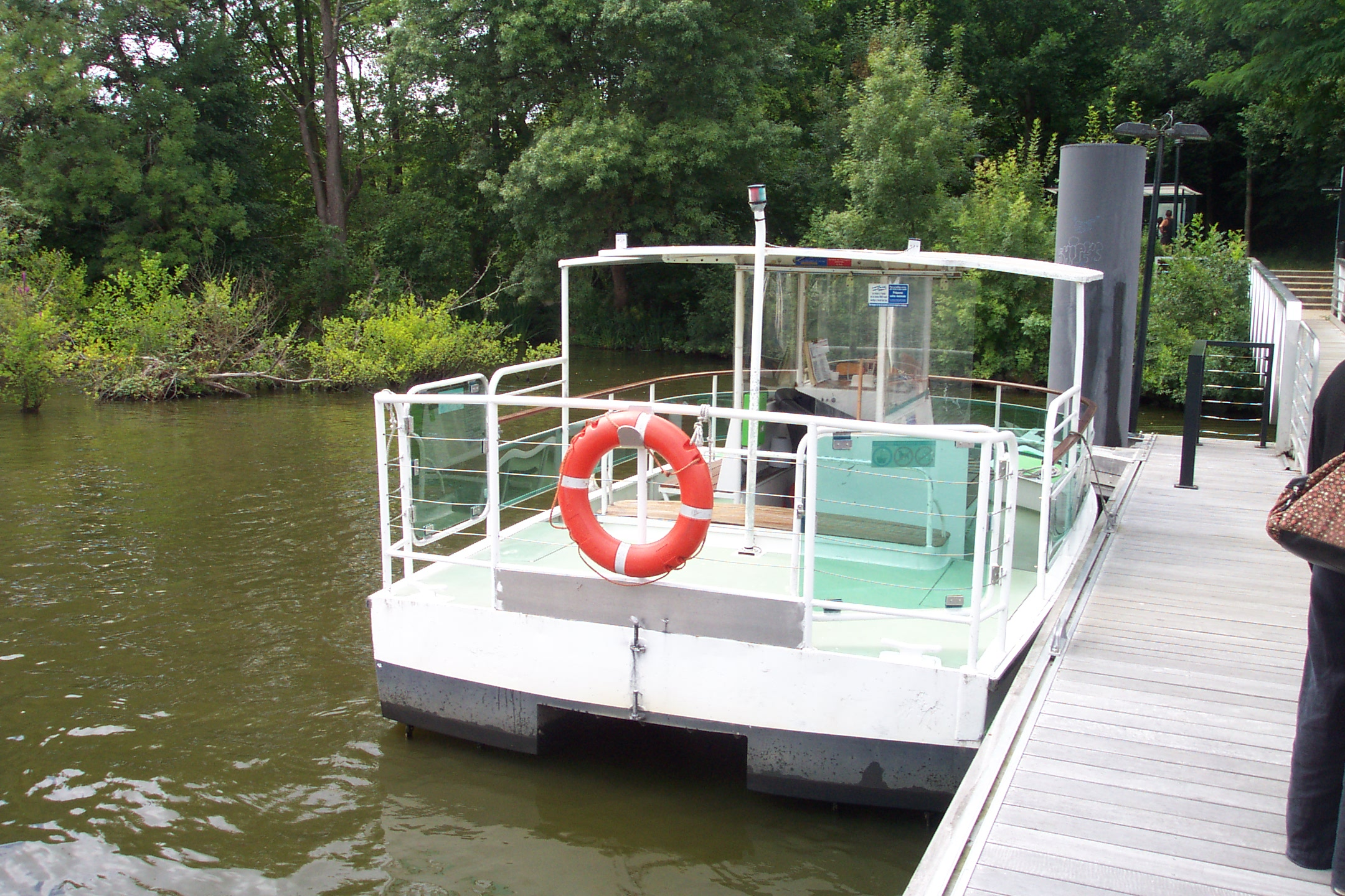 The Navibus Mouette, alongside the jetty at the Petit Port/Facultés in Nantes, France. This small boat is used on the Navibus Passeur de l'Erdre service. For more information, see the Wikipedia article Navibus.